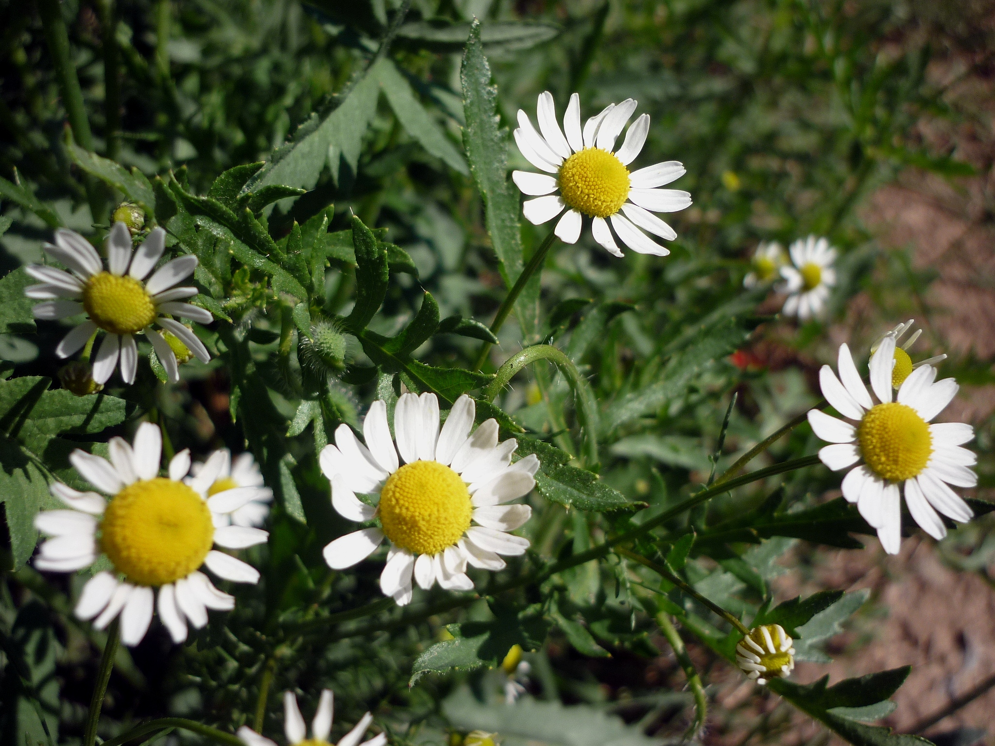 Matricaria recutita. In Torà (Segarra-Catalunya). To 440 m. altitude